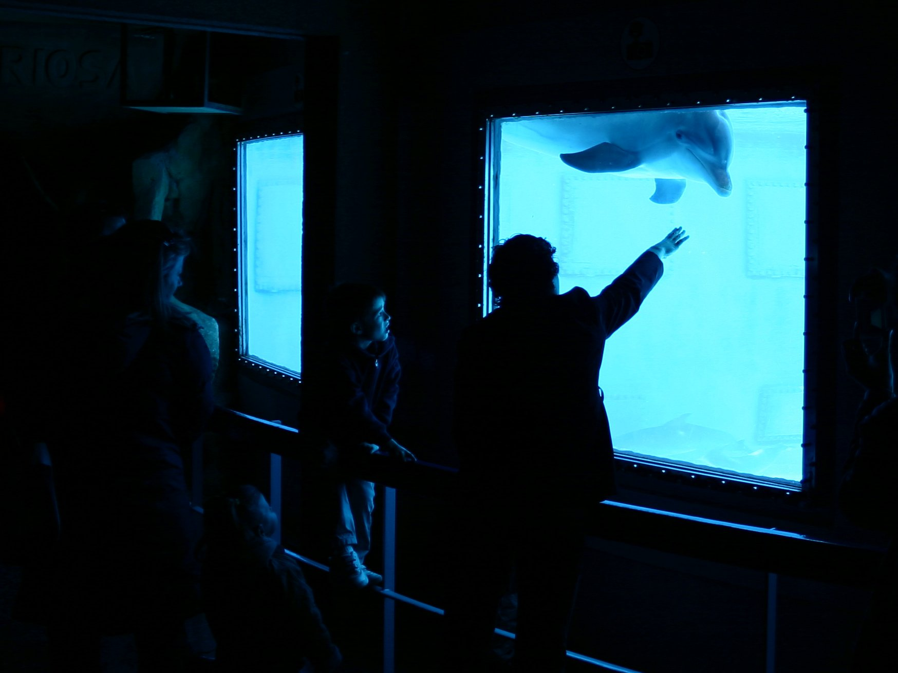 Aquarium in the Zoo of Barcelona